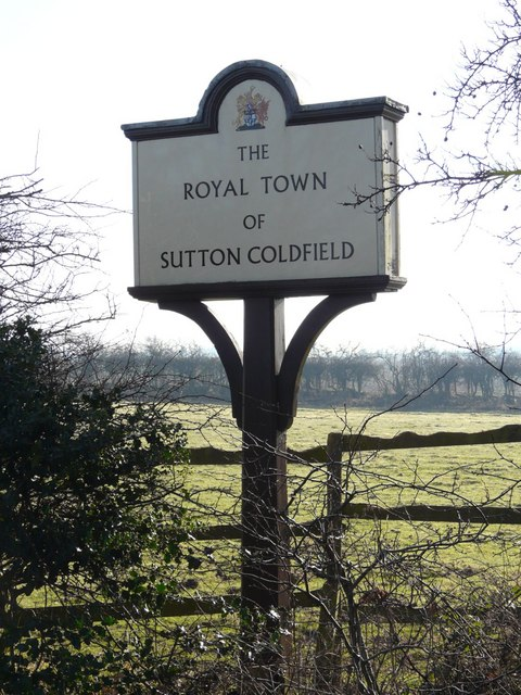 Sutton Coldfield Town Sign, Watford Gap A5127 There were similar signs on all main roads, at the boundary of the town of Sutton Coldfield. In 1974 Sutton Coldfield became part of Birmingham and the city council removed the Sutton Coldfield signs. Since then some have been purchased by private individual and placed on private land as close as possible to their original locations. This particular one was about 1 metre closer to the camera.